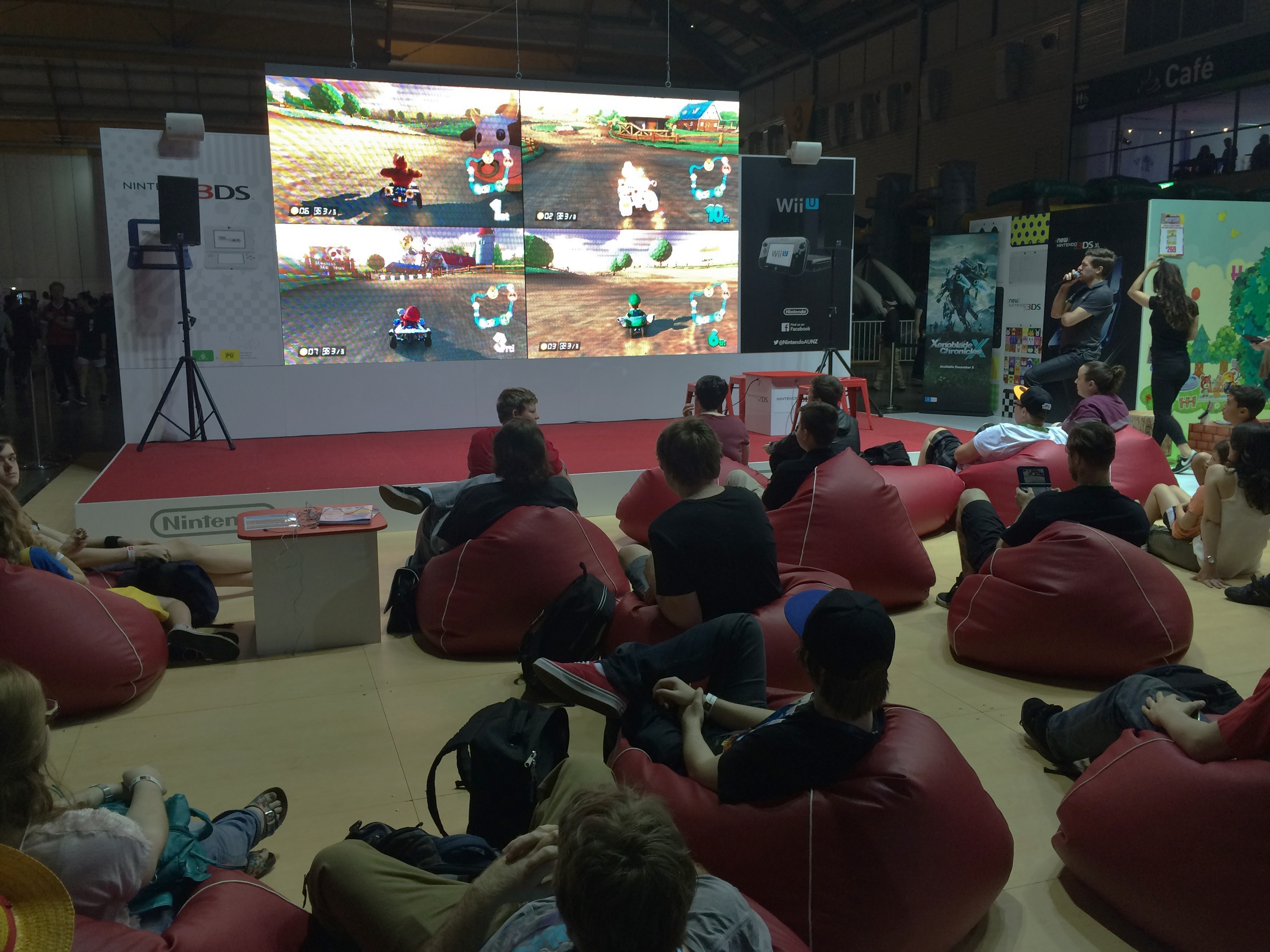 A game of Mario Kart 8 is played by attendees of the EB Games Expo 2015 on a miniature stage at the Nintendo booth.